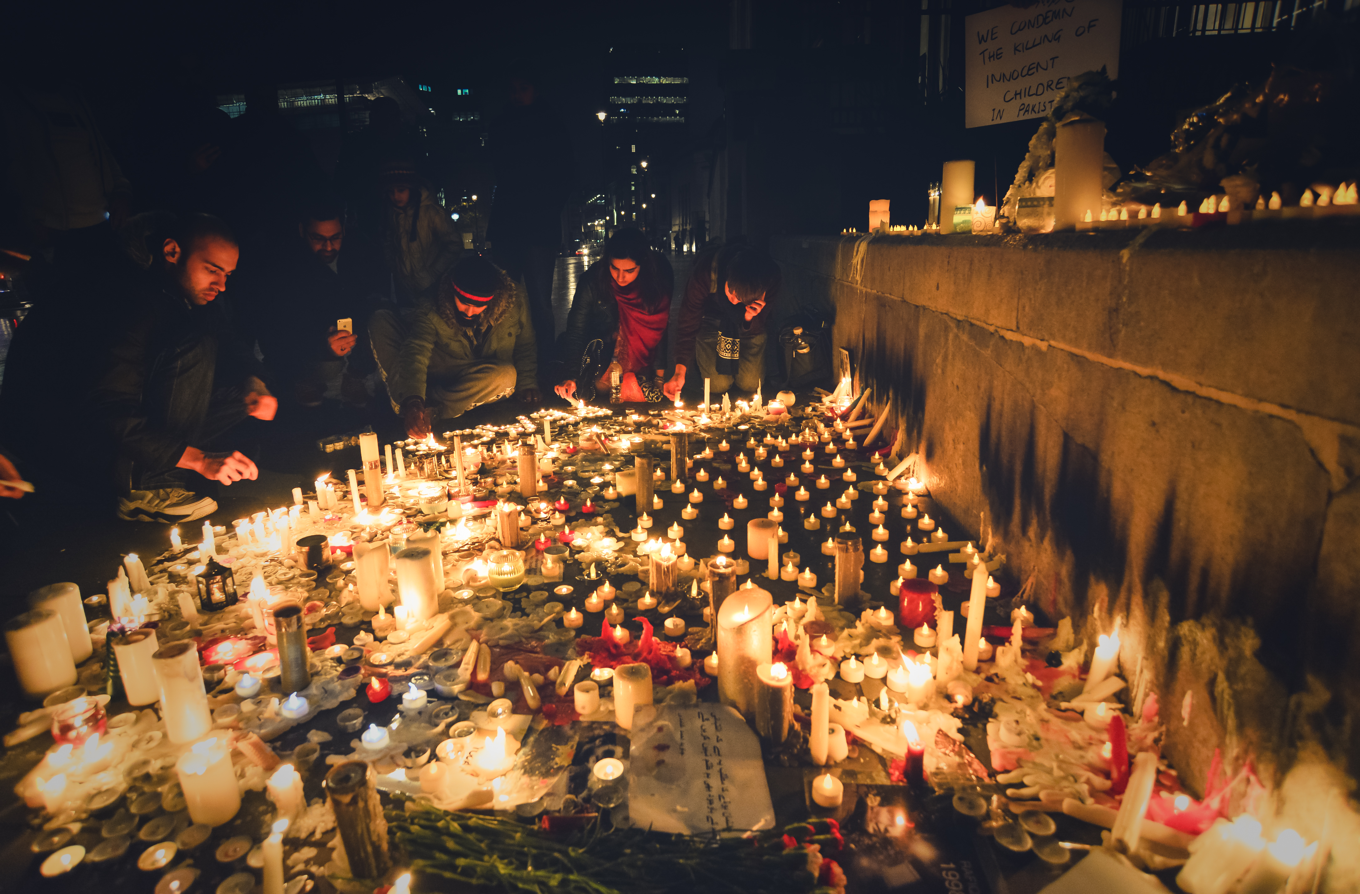 Candlelight vigil in London for the victims of the Peshawar school siege.